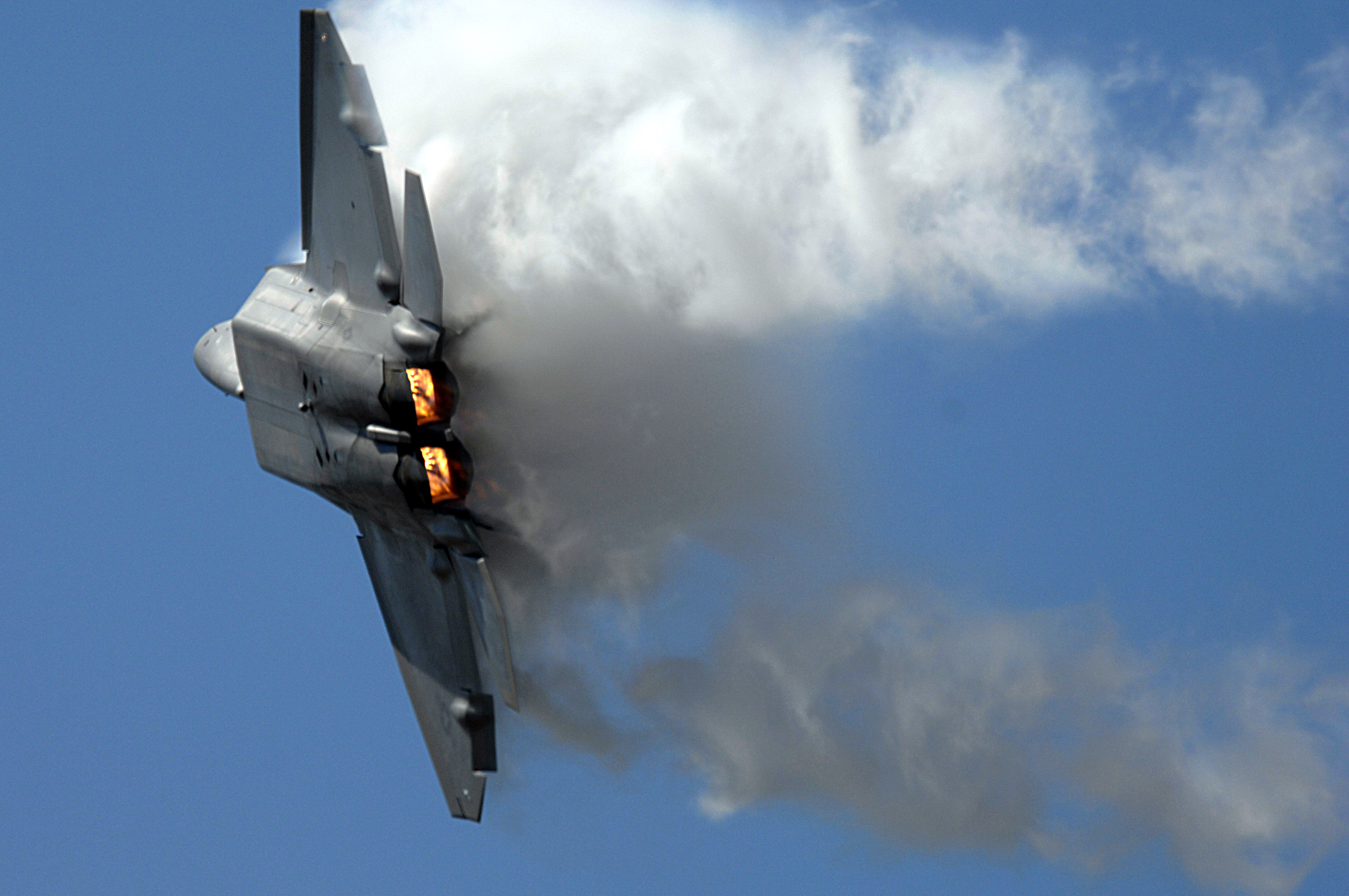 POINT MUGU, CA - The F-22 Raptor demonstration team, from Langley Air Force Base, Va., performs for thousands during a air show at Naval Base Ventura County, Point Mugu, Calif., April 1, 2007.